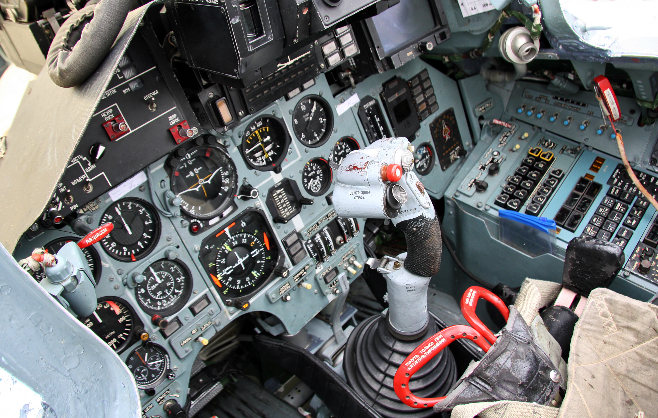 Cockpit of Sukhoi Su-27 fighter